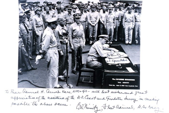 Admiral Chester Nimitz signing Japanese surrender document Admiral Nimitz wrote a personal message to Rear Admiral H. Arnold Karo: "... with best wishes and great appreciation of the assistance of the U. S. Coast and Geodetic Survey in making possible the above scene." Signed: C. W. Nimitz, Fleet Admiral, U. S. Navy. Source: NOAA Photo Library